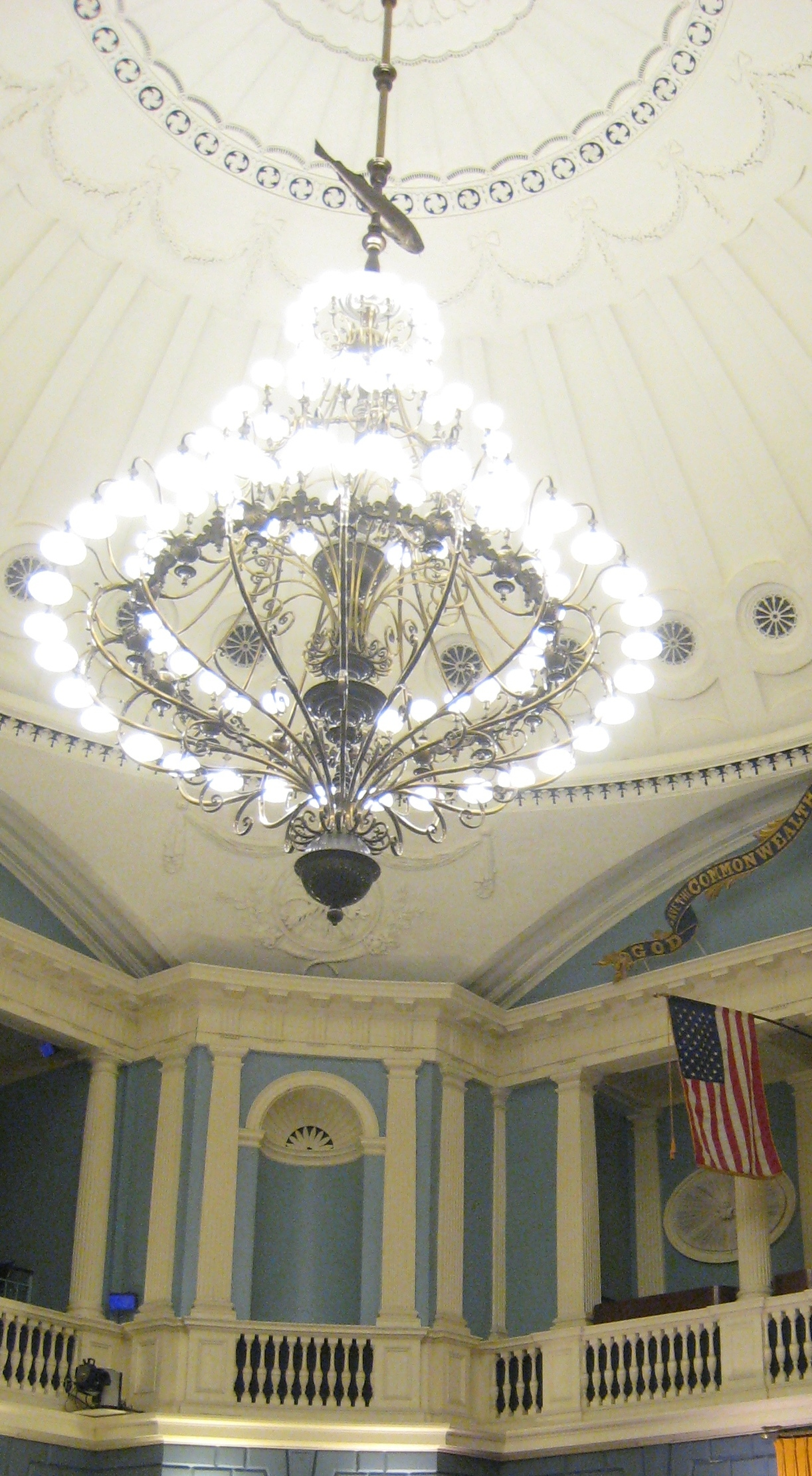 The interior of the Massachusetts Senate Senate, whth the Holy Mackerel in the Chandelier.